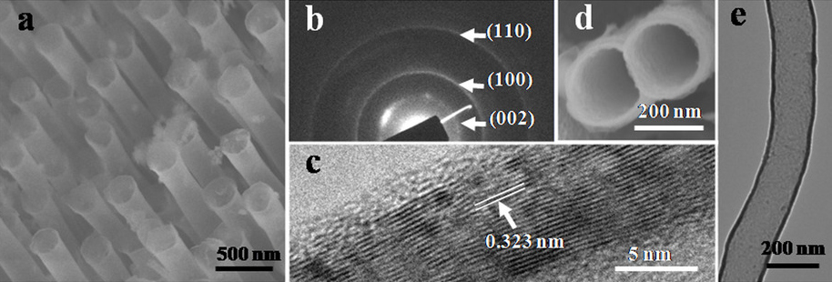 (a) High-magnified SEM image of VA-BC2NNTAs, (b) SAED pattern and (c) HRTEM image of VA-BC2NNTAs, (d) Top-view SEM image and (e) TEM image of VA-BC2NNTAs